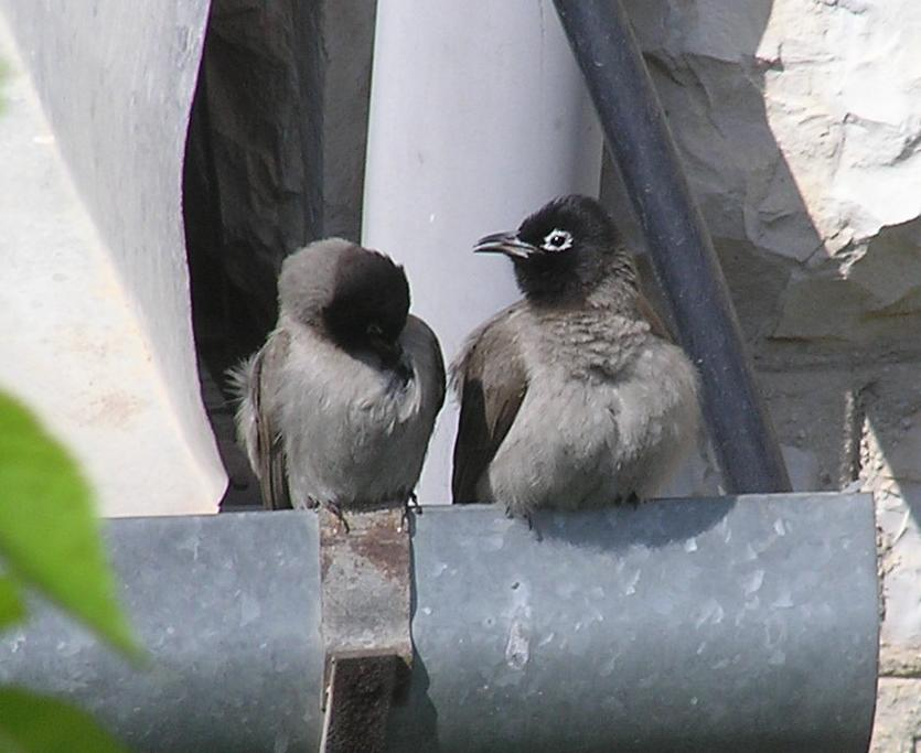 A couple of White-spectacled Bulbuls, taken in Jerusalem, Israel